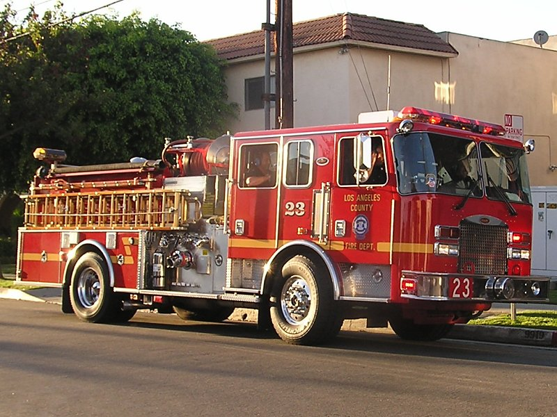 Los Angeles County Fire Dept. Engine 23 in the city of Bellflower, California. Taken by Eric Polk for Los Angeles County Fire Department.